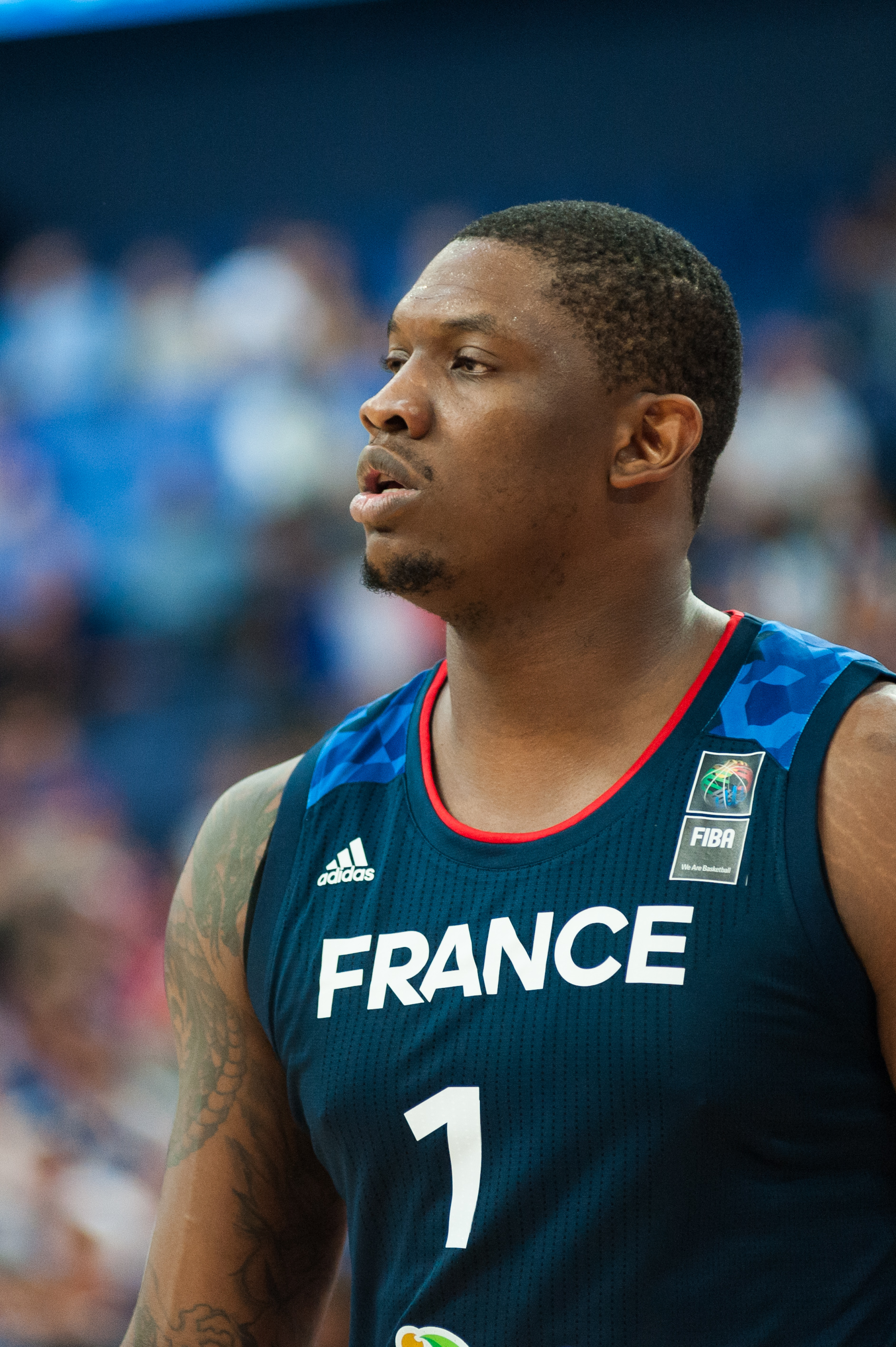 EuroBasket 2017 Group A game between Greece and France at Hartwall Arena in Helsinki, Finland.